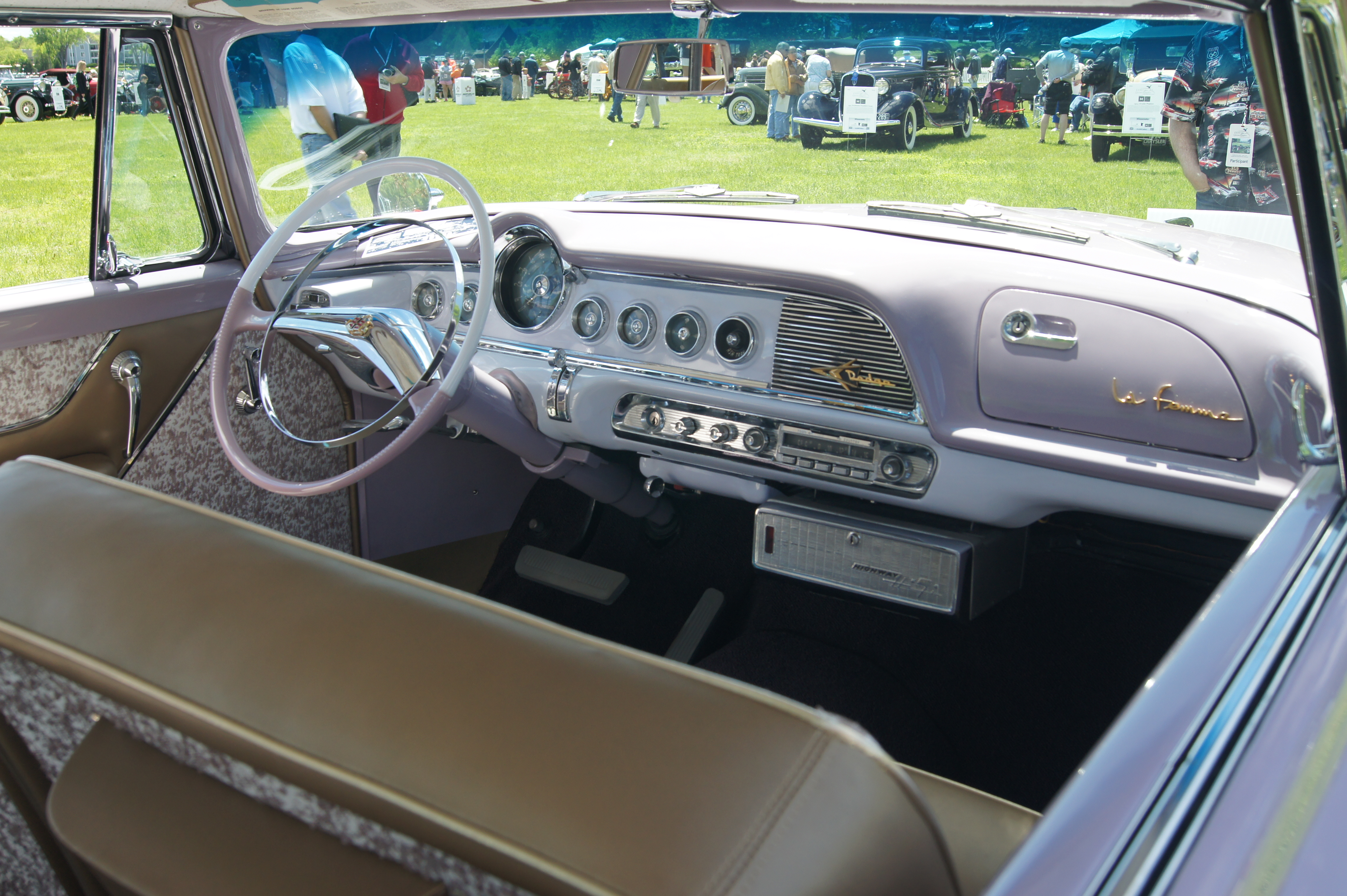 Inaugural 10,000 Lakes Concours d'Elegance to Benefit Courage Center Foundation June 2, 2013 Excelsior Commons Excelsior Minnesota Thousands of car pictures at the link below: Inaugural 10,000 Lakes Concours d'Elegance to Benefit Courage Center Foundation June 2, 2013 Excelsior Commons Excelsior Minnesota Thousands of car pictures at the link below